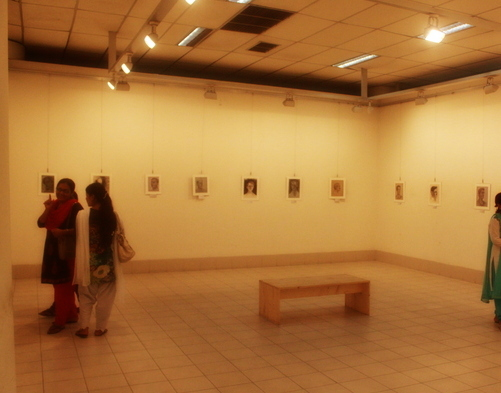 One of the gallery sections at the National Art Gallery in Dhaka of artist Sunni Sunwar